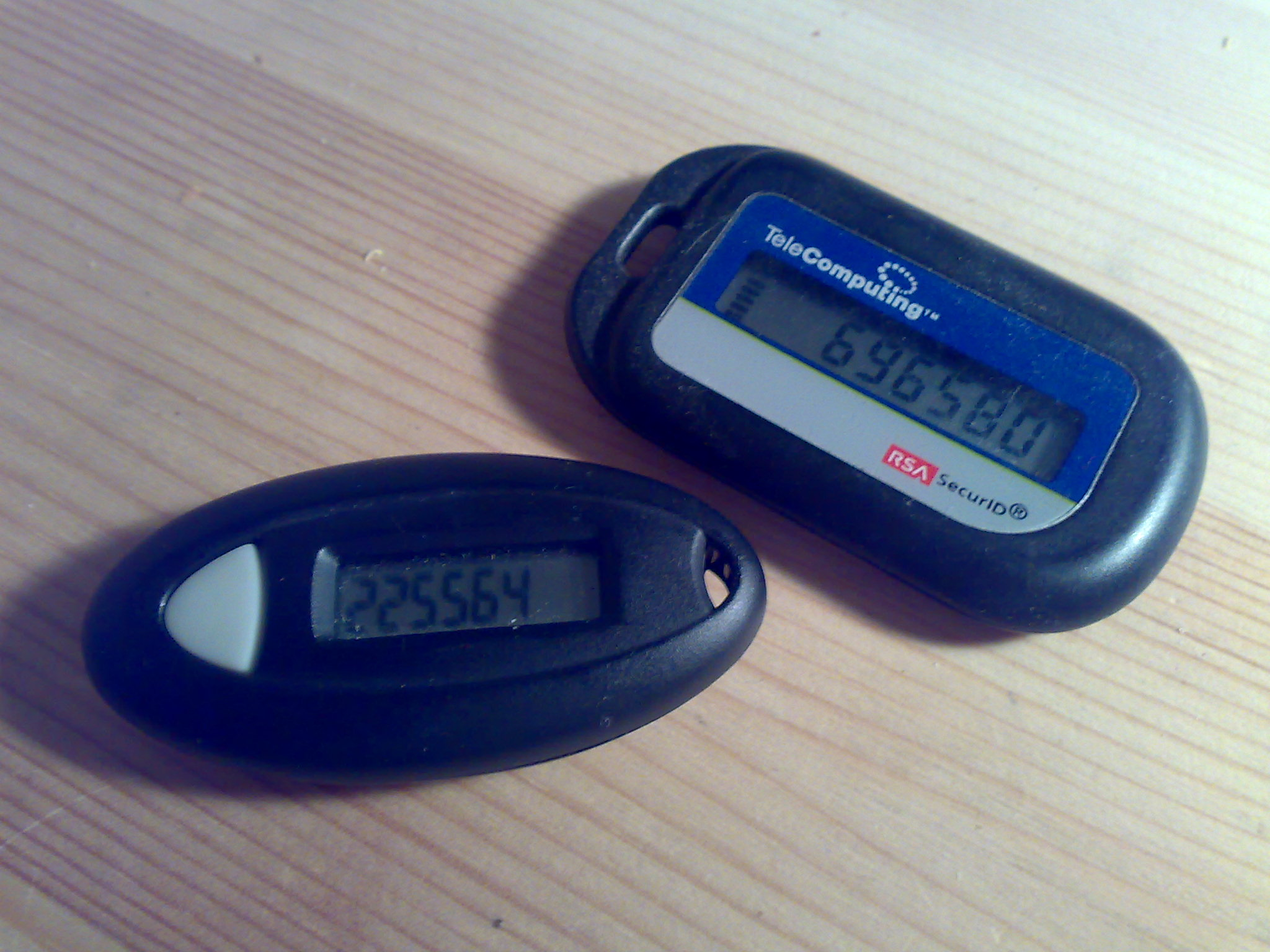 OTP tokens RSA SecurID and VASCO DIGIPASS GO 3 Česky: Tokeny pro autentizaci jednorázovým heslem RSA SecurID a VASCO DIGIPASS GO 3